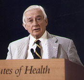 James W. Symington — Speaking on June 12, 2001 at the dedication of the NIH Bldg. 1 Plaza, in honor of former Rep. Paul G. Rogers. Source: Rich McManus (2001-07-10). "Paul G. Rogers Honored: Bldg. 1 Plaza Dedicated to 'Mr. Health'". The NIH Record LIII (14). National Institutes of Health, U.S. Department of Health and Human Services. Retrieved on 2006-11-26.